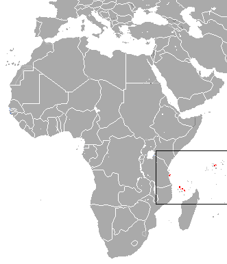 Seychelles Fruit Bat (Pteropus seychellensis) range